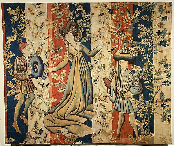 Courtiers in a Rose Garden: A Lady and Two Gentlemen